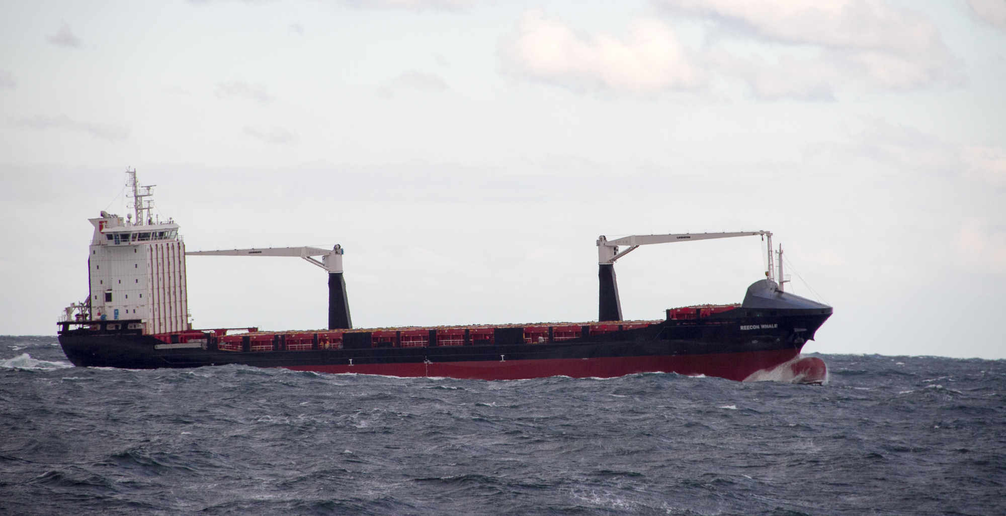 Reecon Whale, container ship of Maltese registry, plying the Black Sea near Constanța, Romania. Gross Tonnage: 10689 Deadweight: 12513 t Length Overall x Breadth Extreme: 141.5m × 22.6m Year Built: 2011 Status: Active Read more at